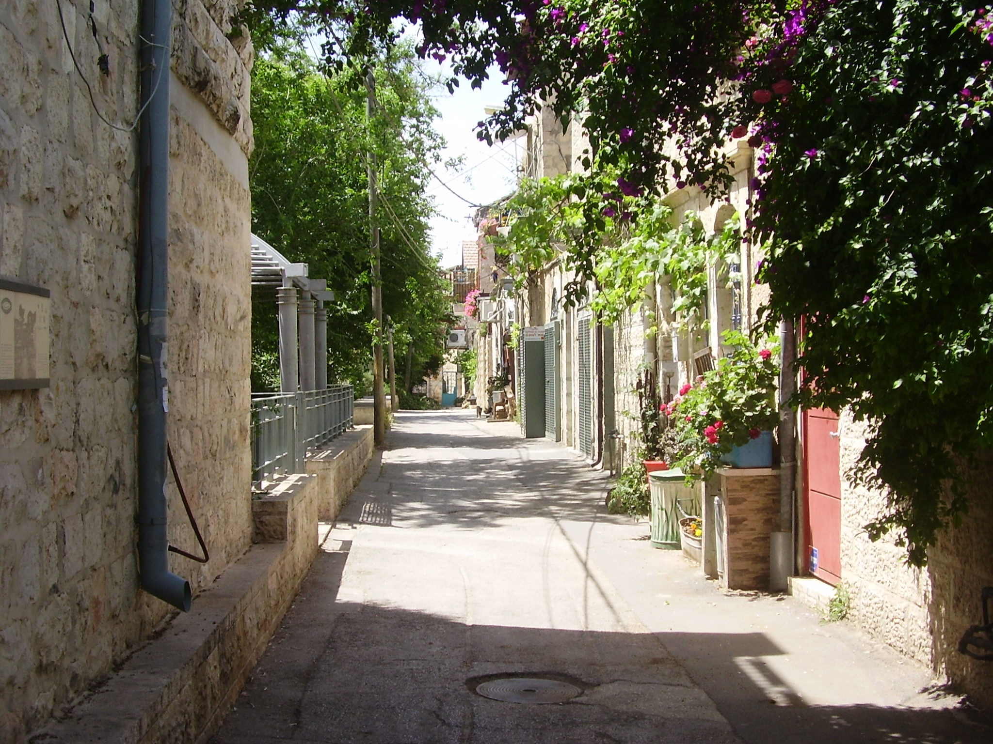 Mazkeret Moshe Jerusalem, Einayim LaMishpat street